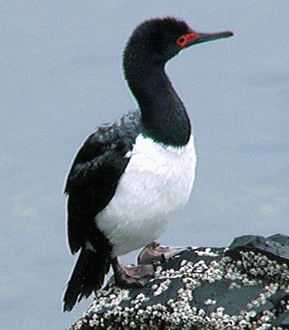 Rock Cormorant (Phallacrocorax magellanicus) near Ushuaia, Argentina. Photographed on 6 January 2004